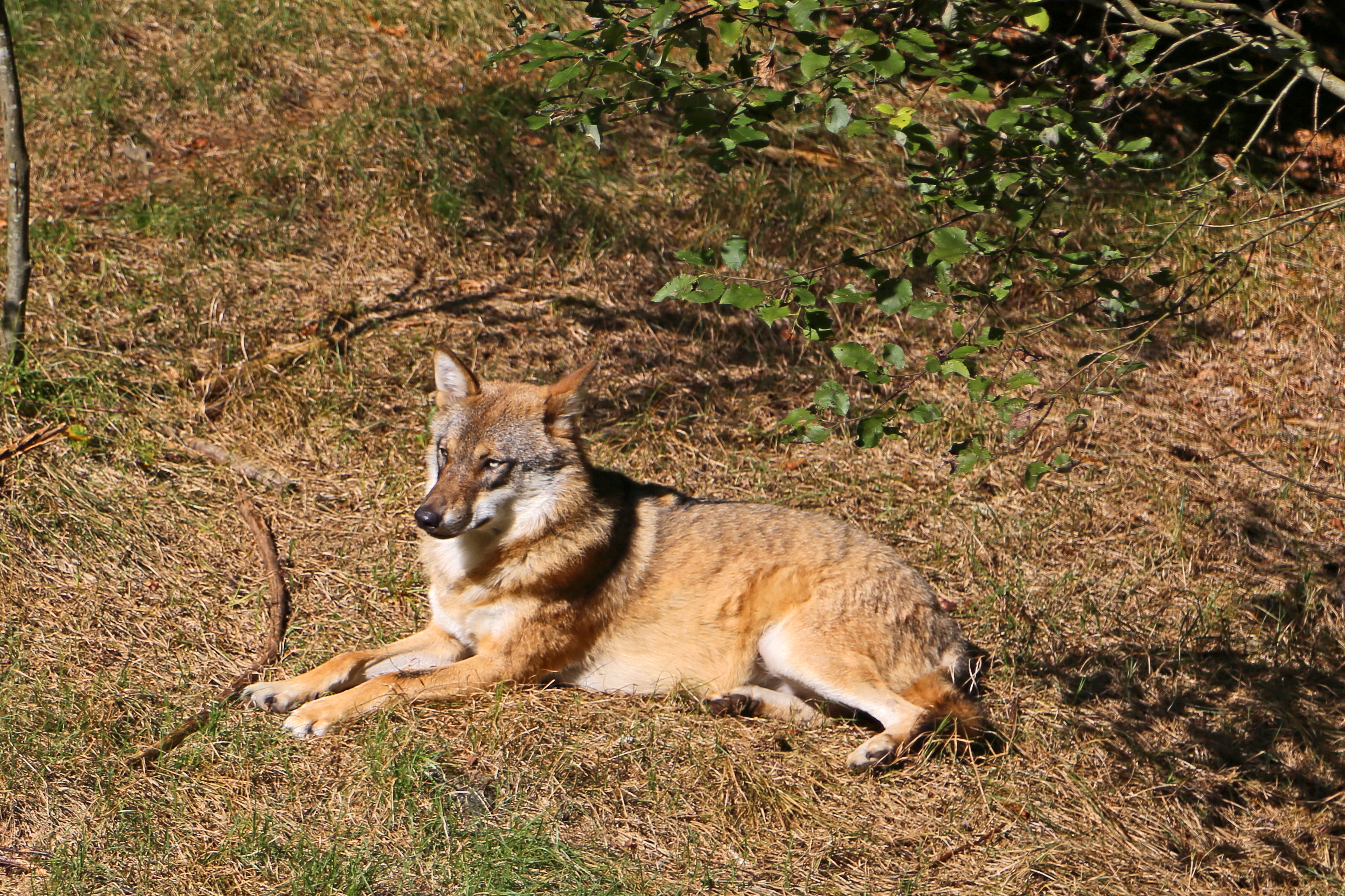 Wolf in the game reserve. Seen in the Bavarian Forest National Park.